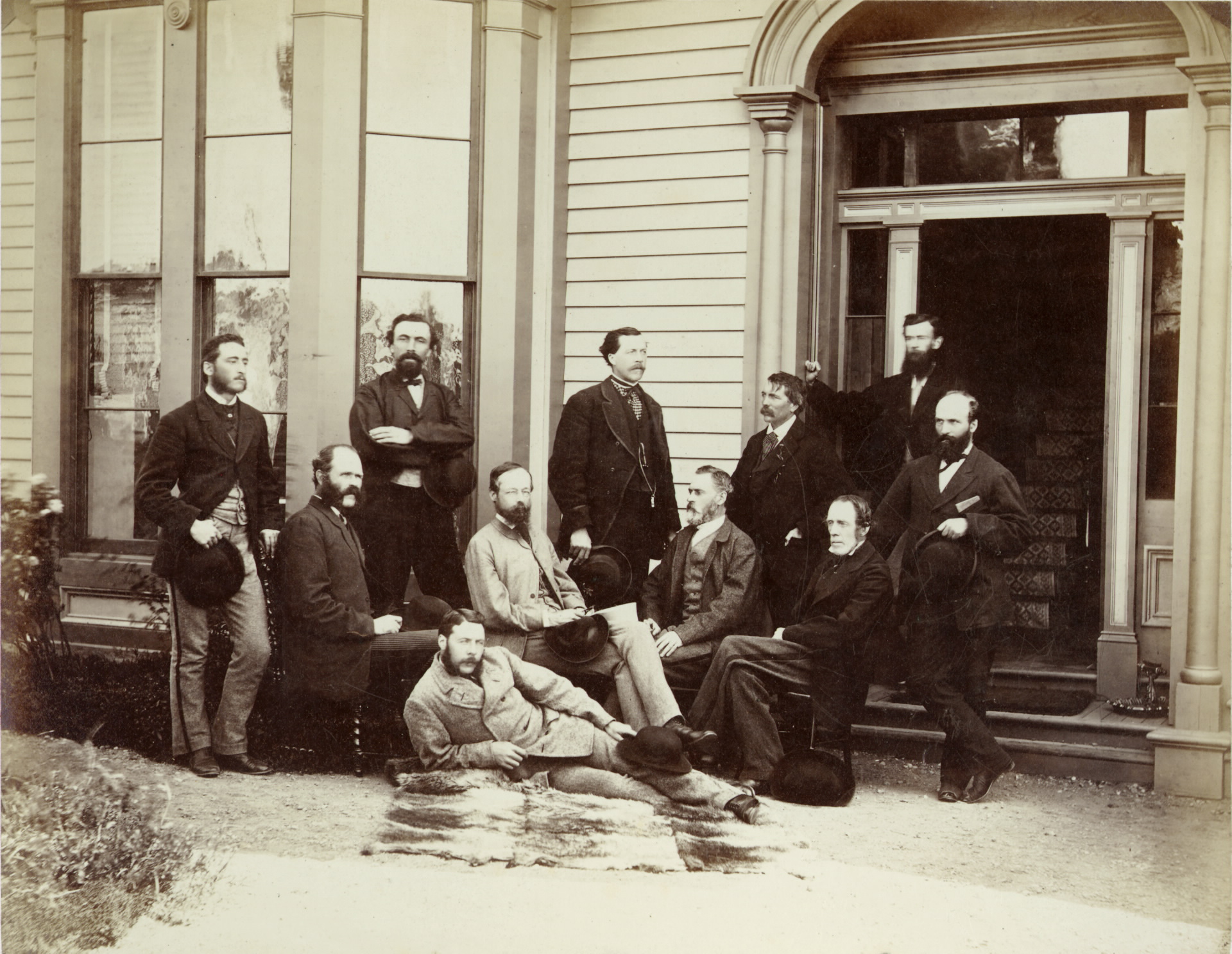 Printed caption on verso: "No. 69913 The First Canadian Pacific R.R. and Geological Survey parties for British Columbia, July 22nd 1871." This photograph was taken of the Geological Survey of Canada and Canadian Pacific rail road survey parties during their 1871 expedition to British Columbia, led by A.R.C. Selwyn (in pale coat, seated at centre) Director of the GSC. From left to right, the subjects are: L. N. Rheaumis; Roderick McLennan; A. S. Hall; W. W. Ireland; Alfred R.C. Selwyn; Alex Maclennan; Walter Moberly; C. E. Gilette; James Richardson; McDonald (unknown given name); George Watt.